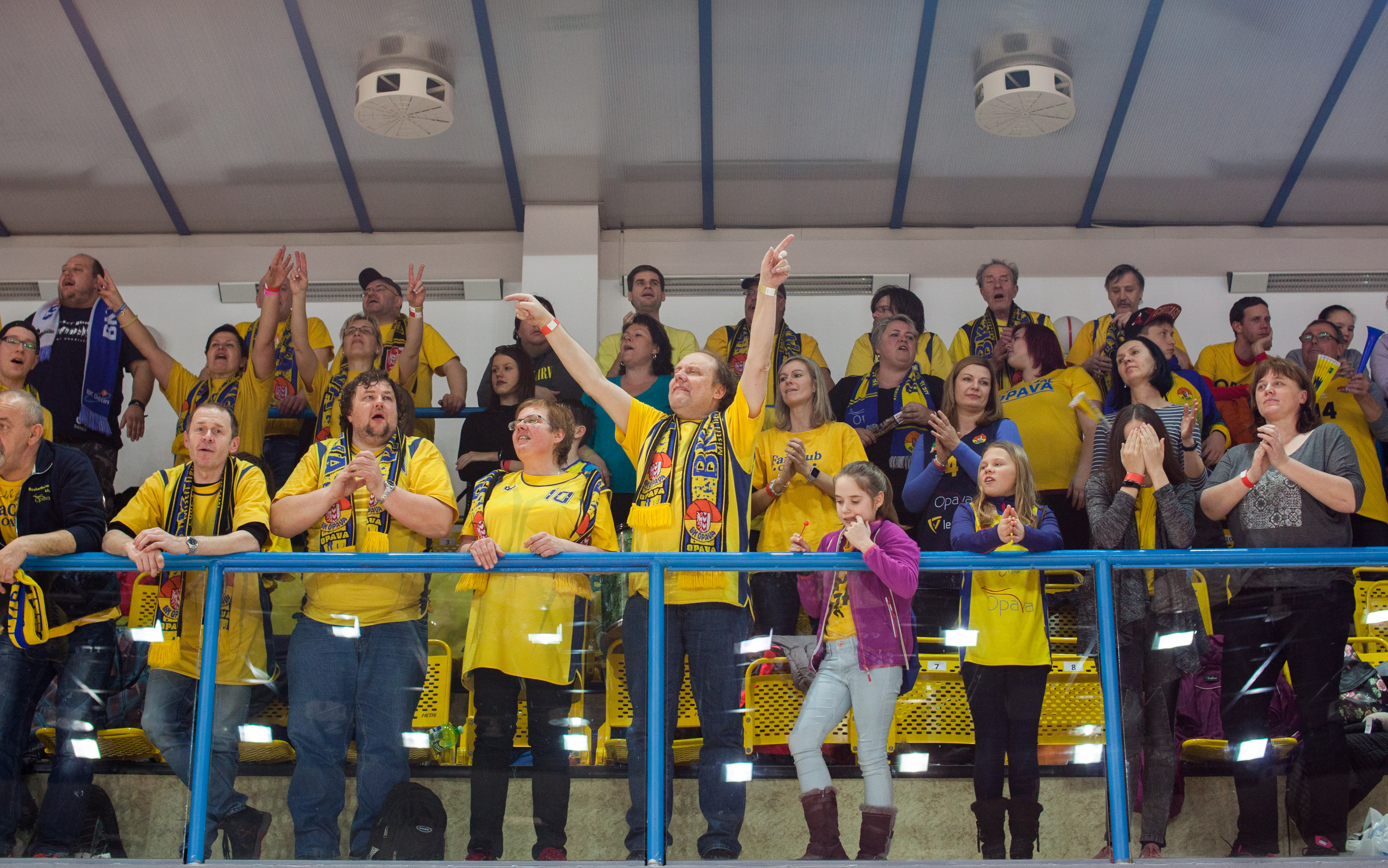 Final match of Czech basketball cup Hyundai Final4 between clubs BK Opava-ČEZ Basketball Nymburk (Nový Jičín, 10 February 2019)